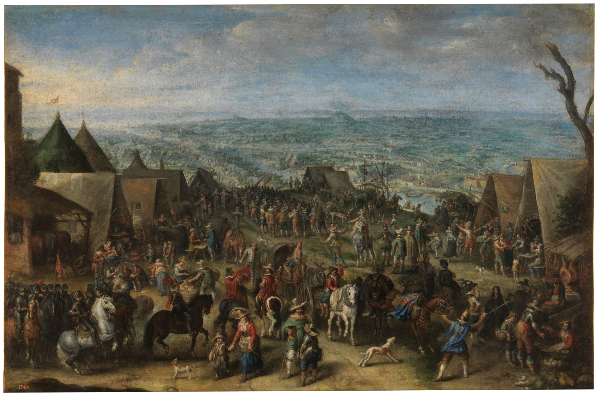 Cornelis de Wael, Siege of Ostend, oil on canvas, 73 cm x 111 cm, Museo del Prado